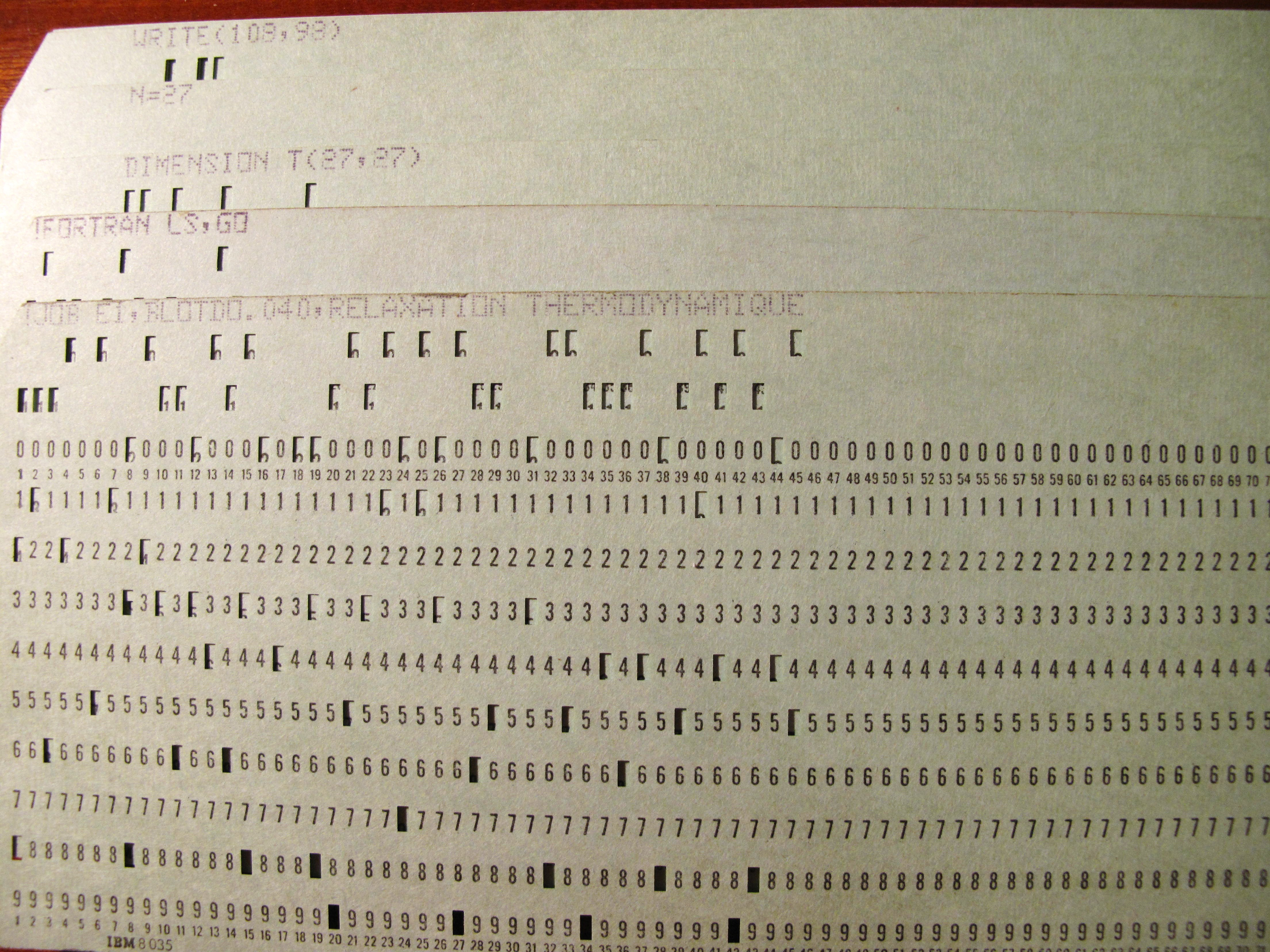 A punch card programmed with Fortran.